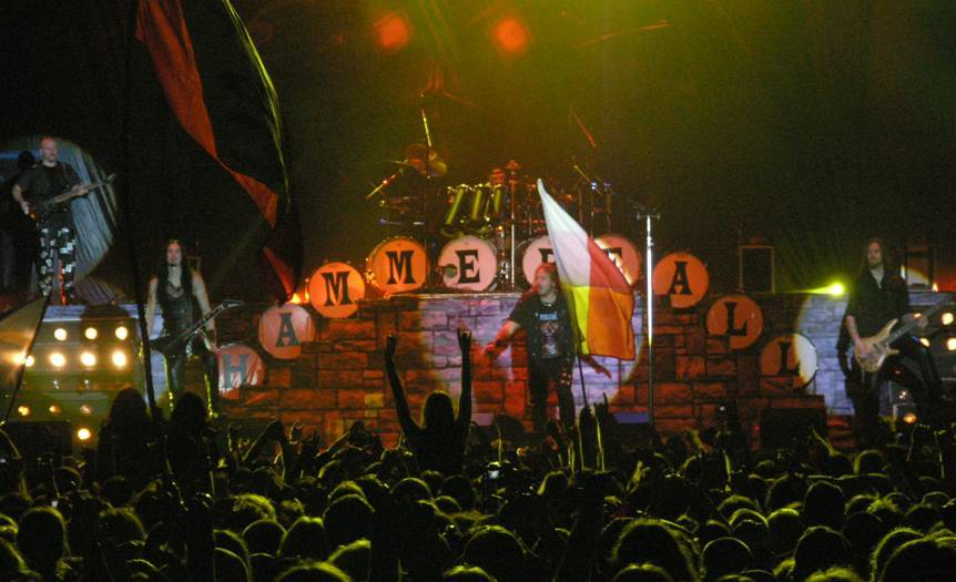 Music band Hammerfall during Masters of Rock 2007 festival